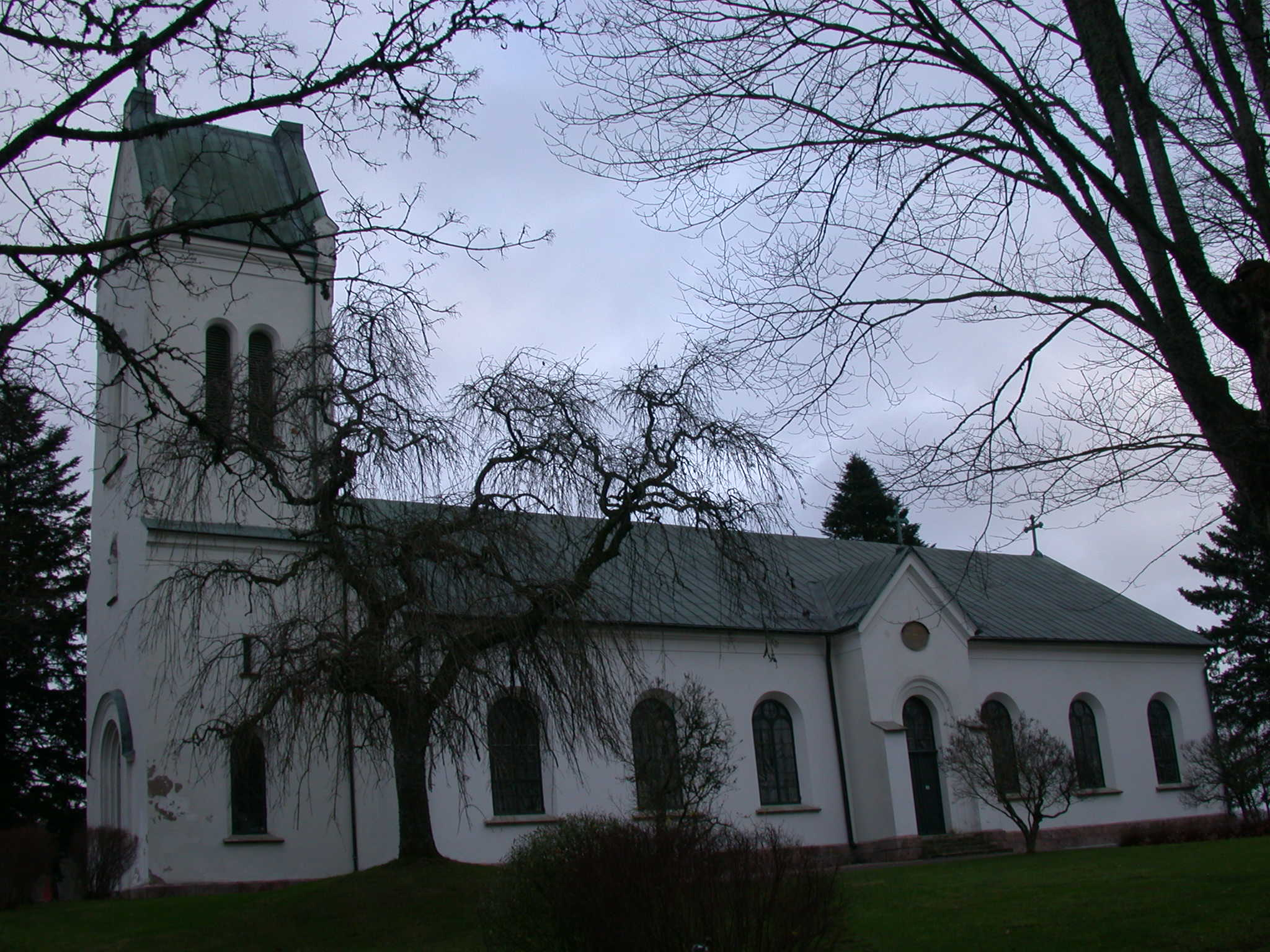 Ullervad Church, Mariestad, Sweden. Photo by Riggwelter, 2006.